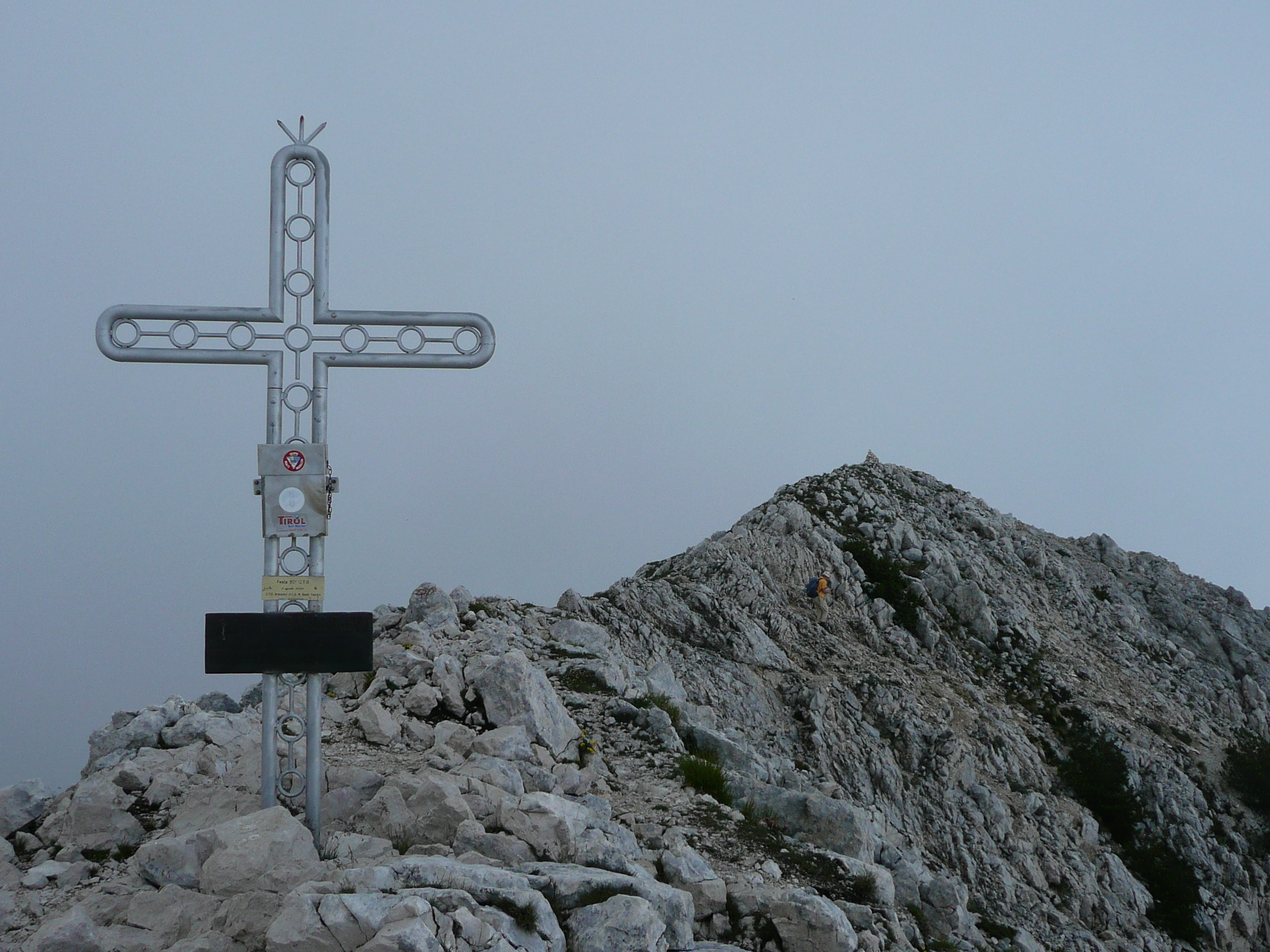 Peak of Monte Baldo, Cima di Valdritta.